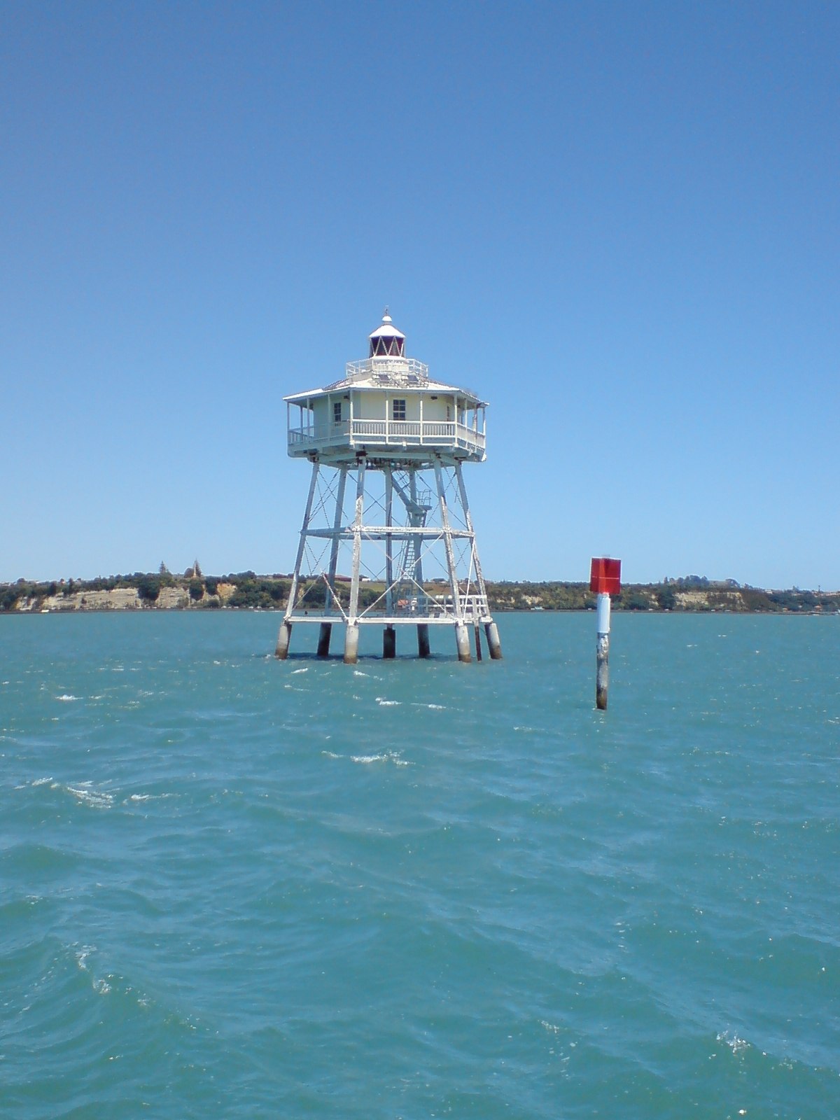 An old lighthouse (Bean Rock) near the entrance to the Waitemata Harbour in the Hauraki Gulf of New Zealand, somewhere south of Rangitoto Island. New Zealand Historic Places Trust Register number: 3295